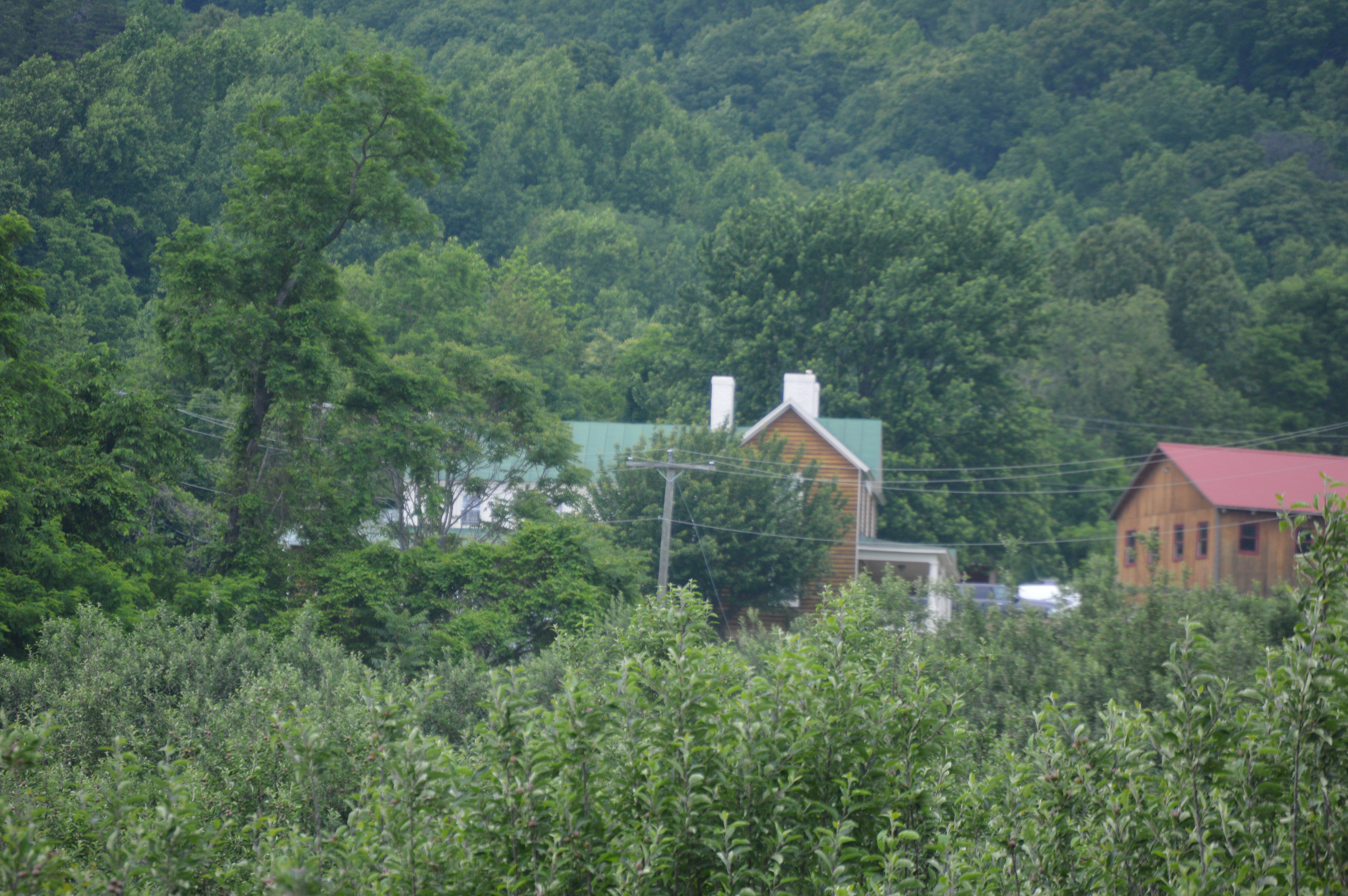 Distant view of the Bowman Farmhouse, located on Cahas Mountain Road Fields at the Booth-Lovelace Farm, located off State Route 116 northwest of Burnt Chimney in Franklin County, Virginia, United States. Built in 1833, it is listed on the National Register of Historic Places.